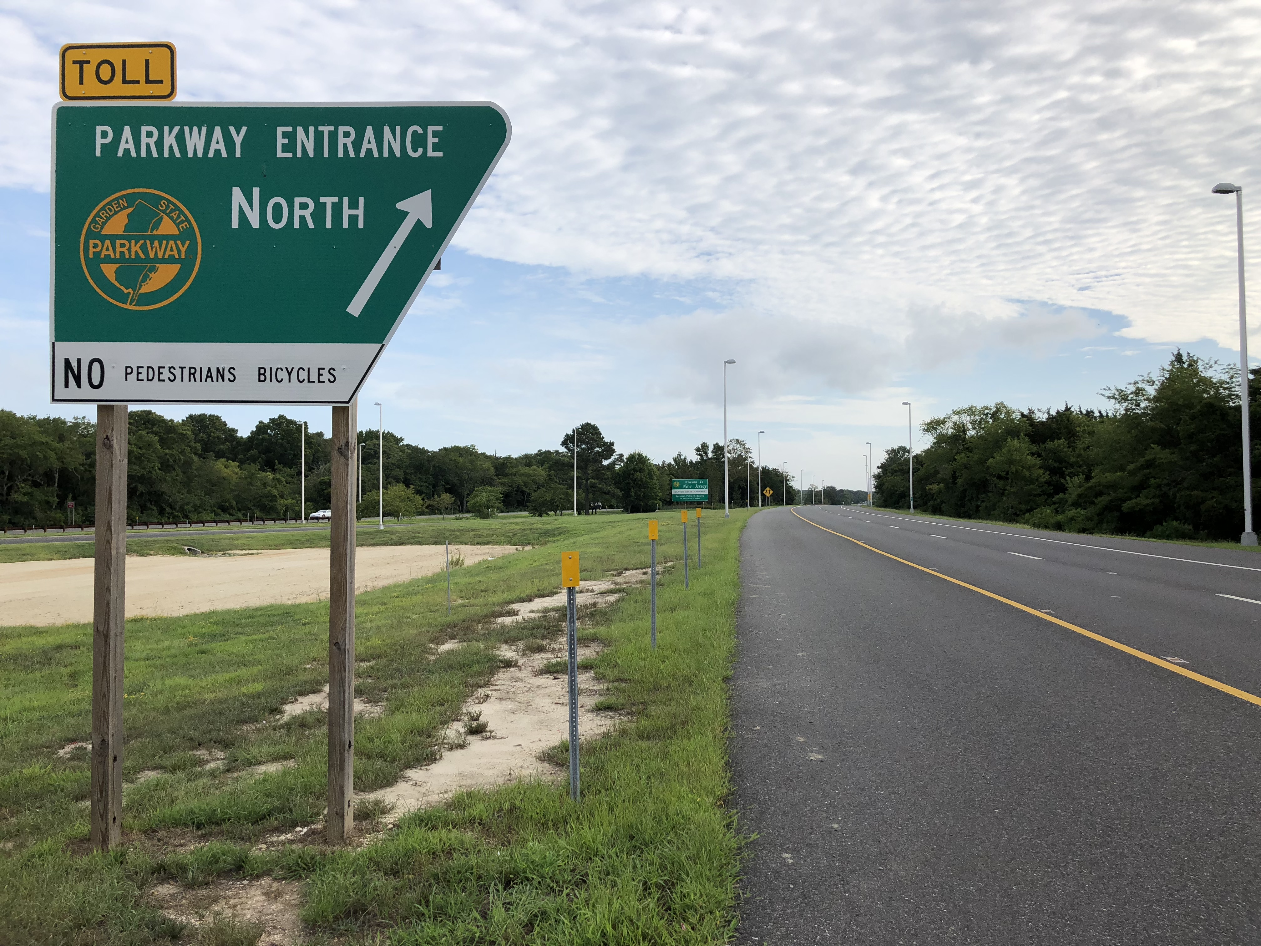 View north at the south end of New Jersey State Route 444 (Garden State Parkway) at New Jersey State Route 109 in Lower Township, Cape May County, New Jersey